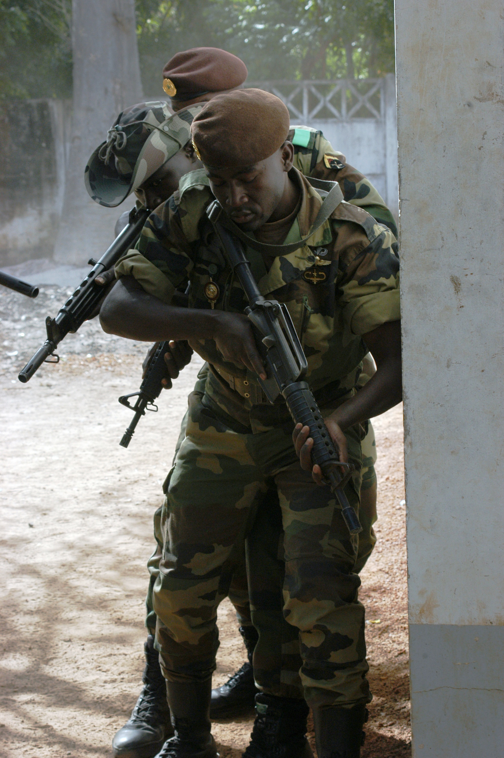 Senegalese forces wrap up their last day of seminars with some practical application on Military Operations in Urban Terrain. See also APS pairs Senegal in Continetal Marines Magazin.